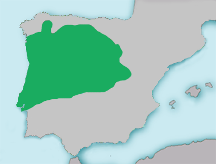 Distribution map of Squalius carolitertii in Iberian Peninsula.